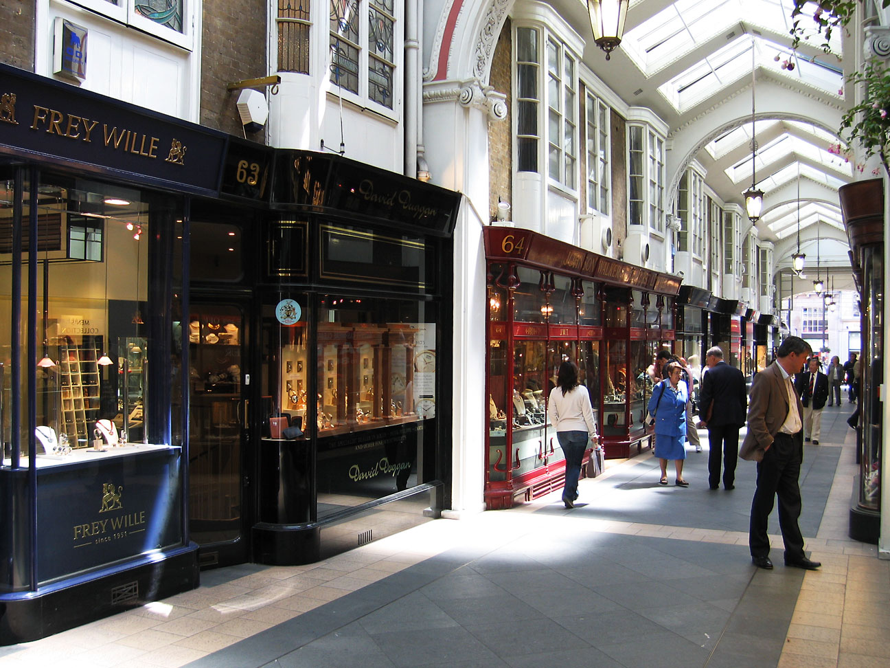 Burlington Arcade, Piccadilly London. Shop fronts inside the arcade. Keywords: Burlington Arcade, shopping